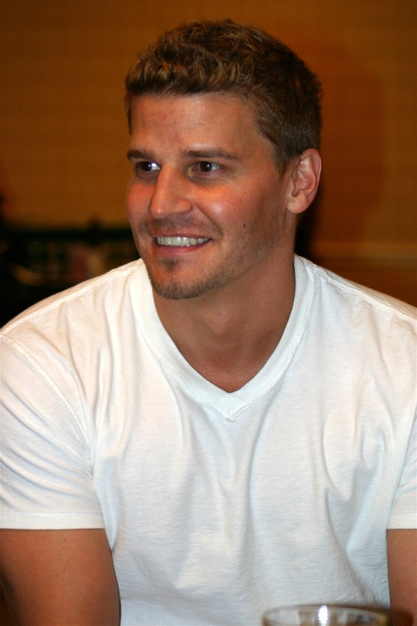 American actor David Boreanaz at "Flashback", a Chicago convention.